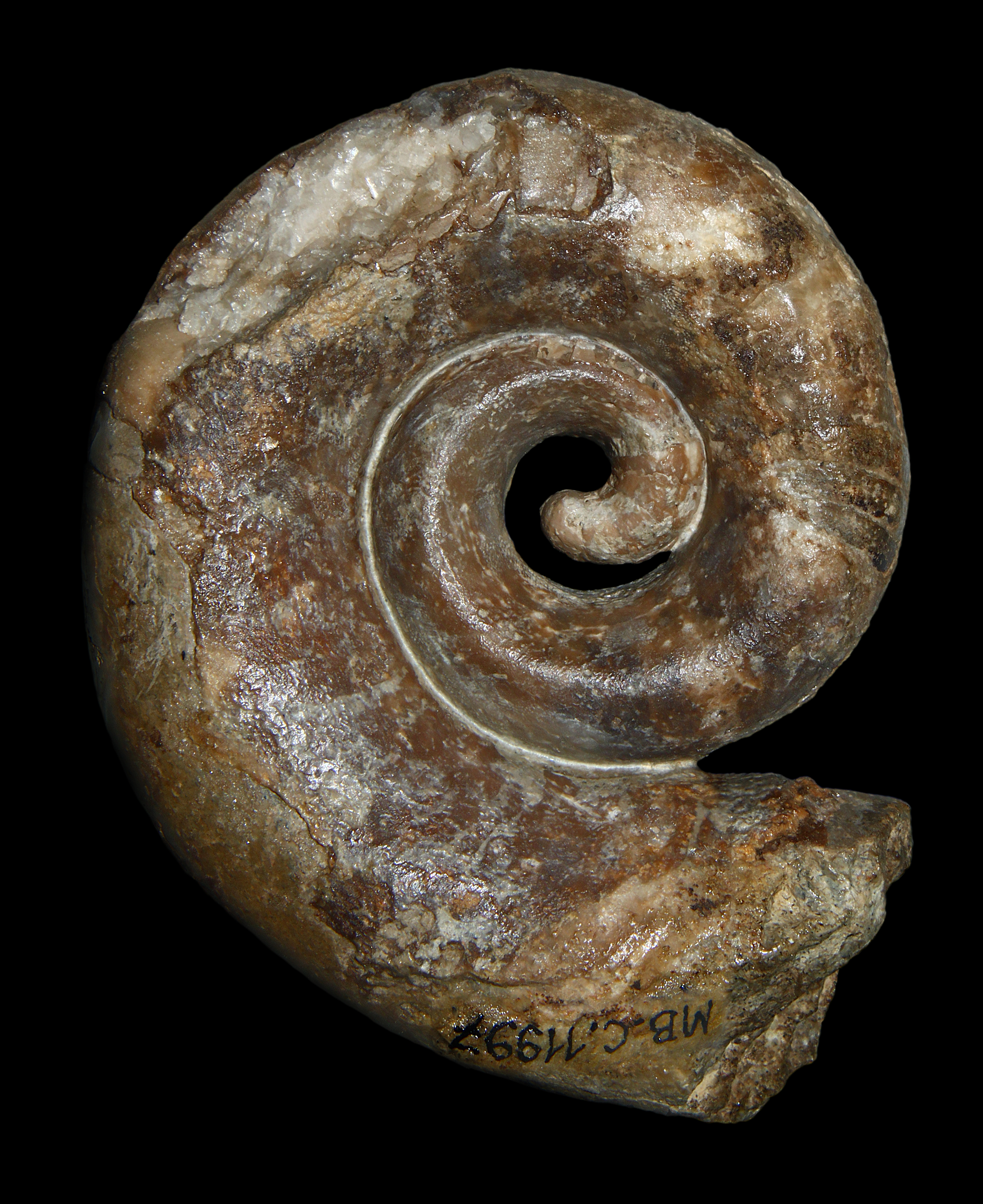 Diameter about 10 cm; Ordovician; Museum für Naturkunde Berlin.